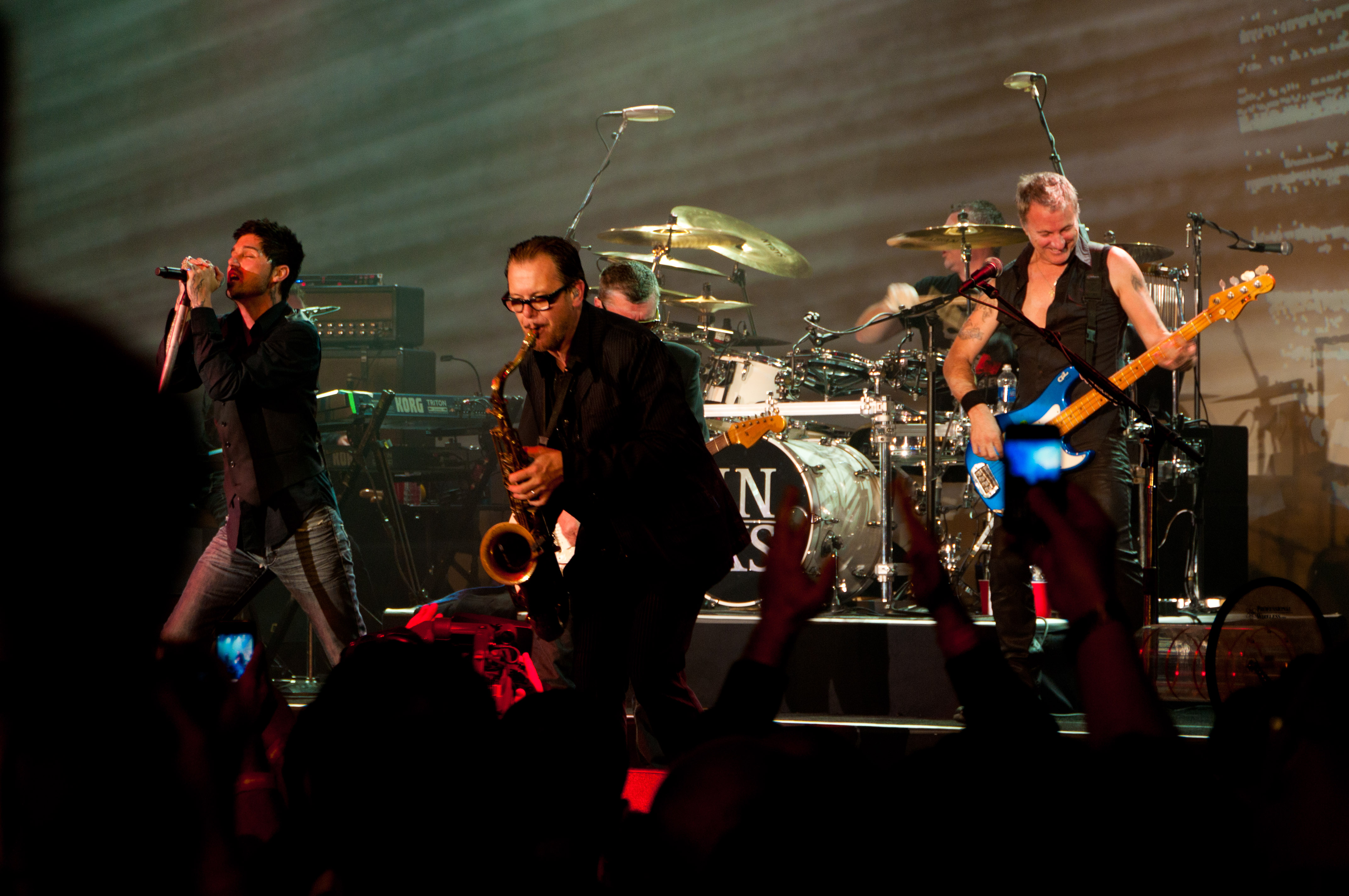 L-R: J.D. Fortune, Kirk Pengilly, Tim Farriss, Jon Farriss, and Garry Gary Beers (not pictured: Andrew Farriss).